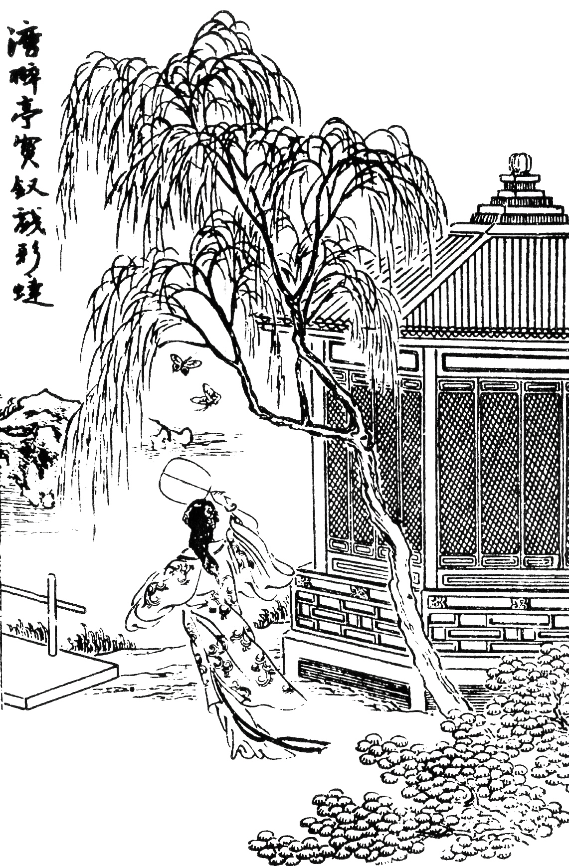 Scene from "The Dream of the Red Chamber"